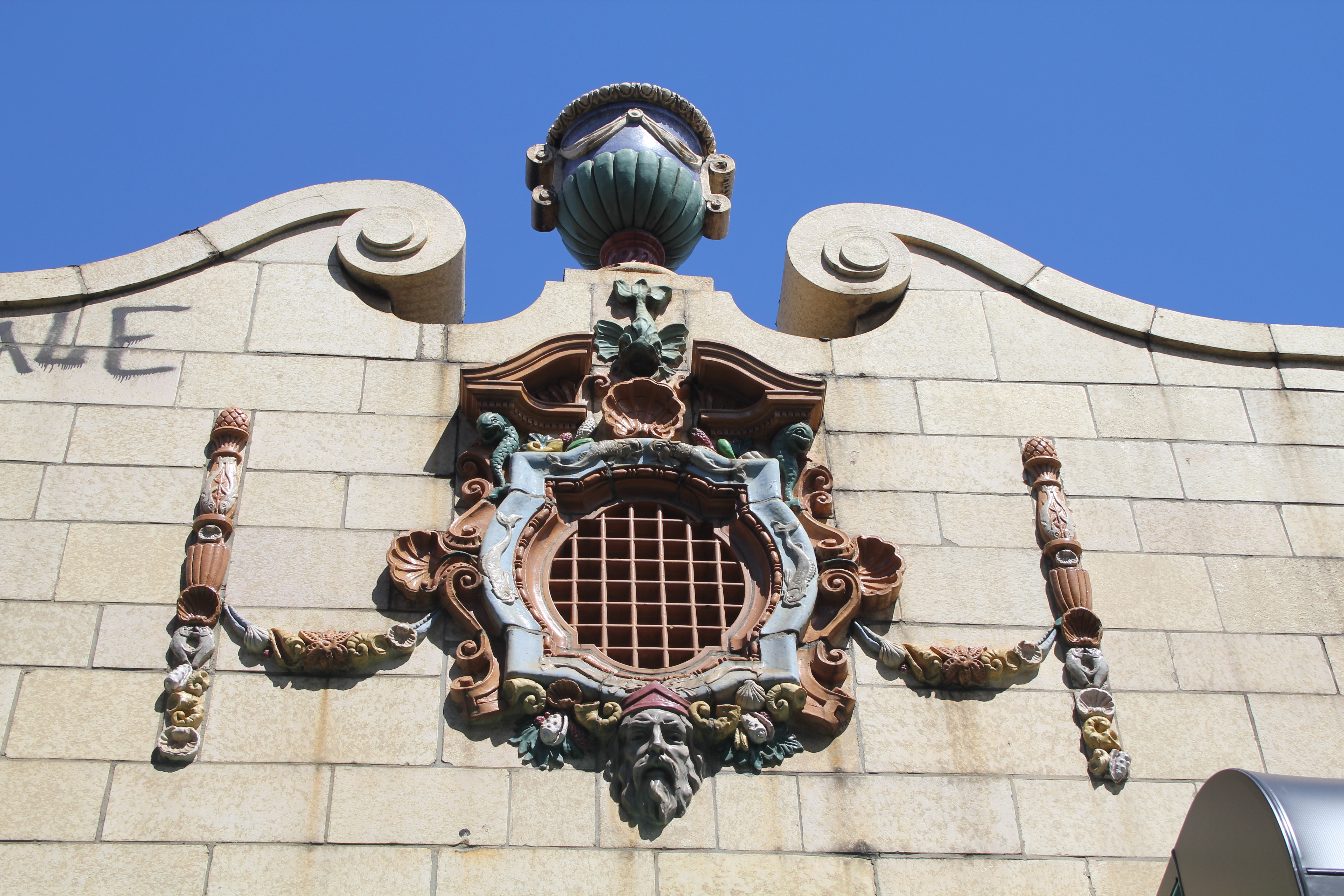 Former Childs Restaurant location at 6319 Roosevelt Avenue, Woodside, Queens, New York. Terra cotta detail.